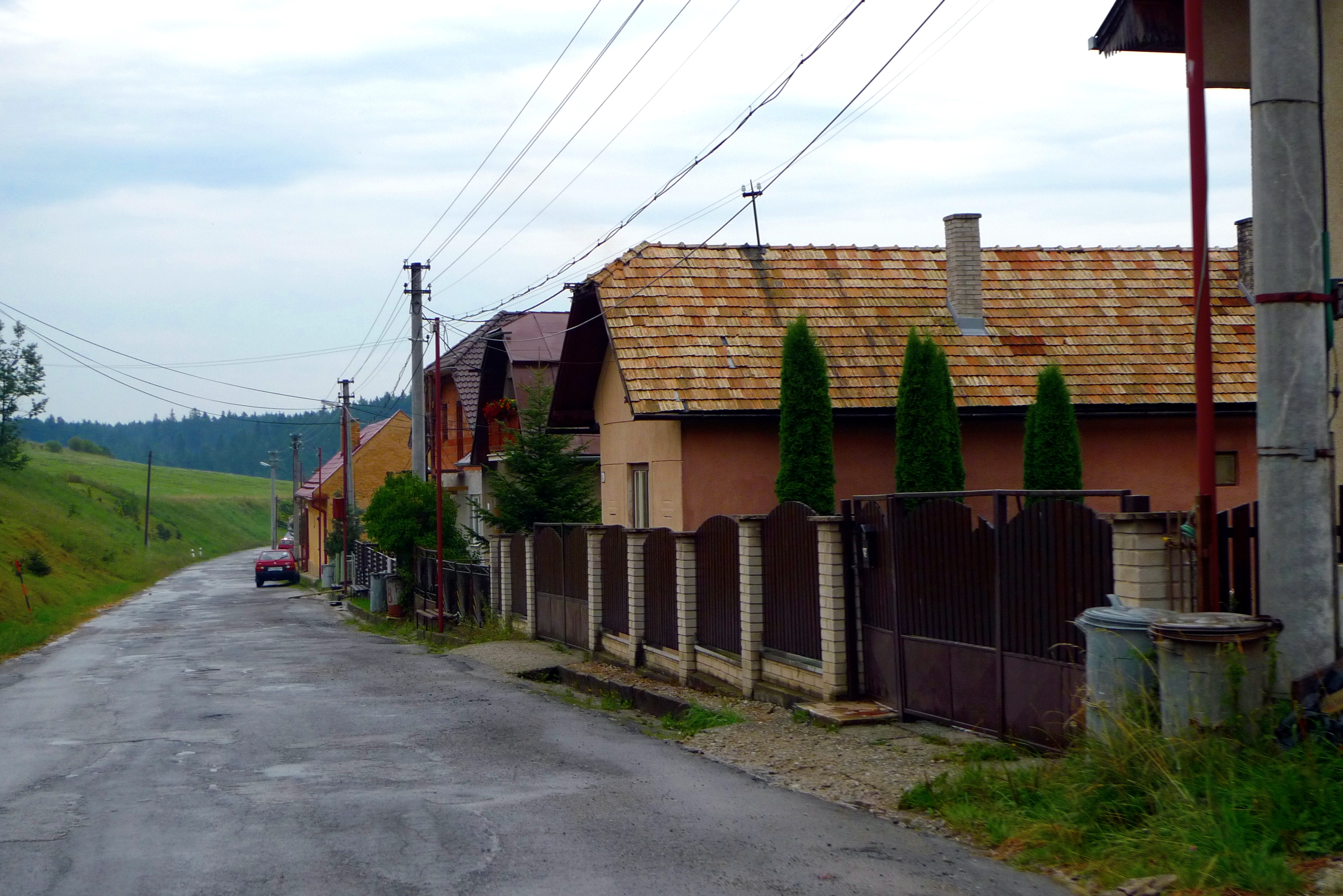 Dlhé Stráže - village in Slovakia Česky: Dlhé Stráže - vesnice na Slovensku